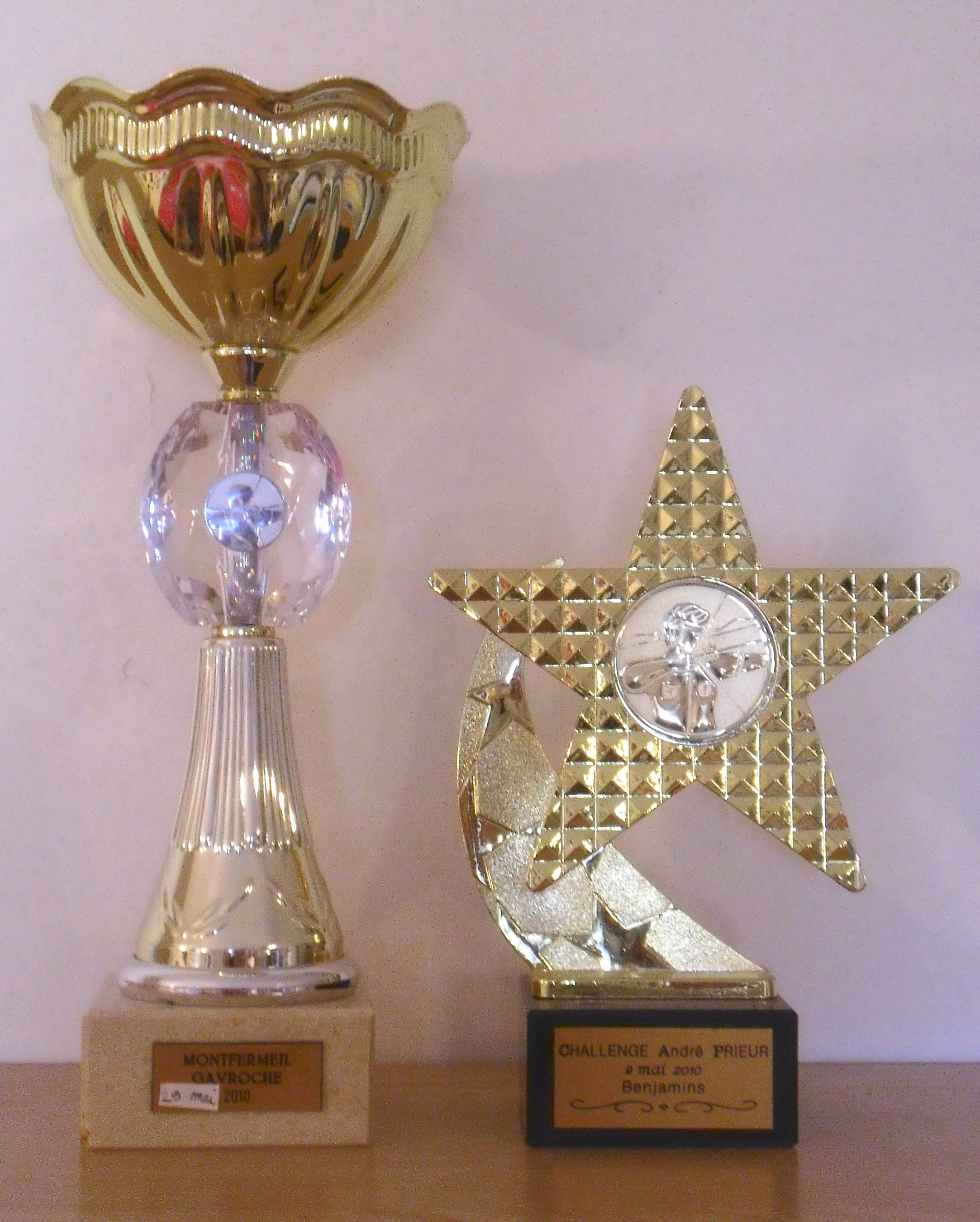 modern trophies